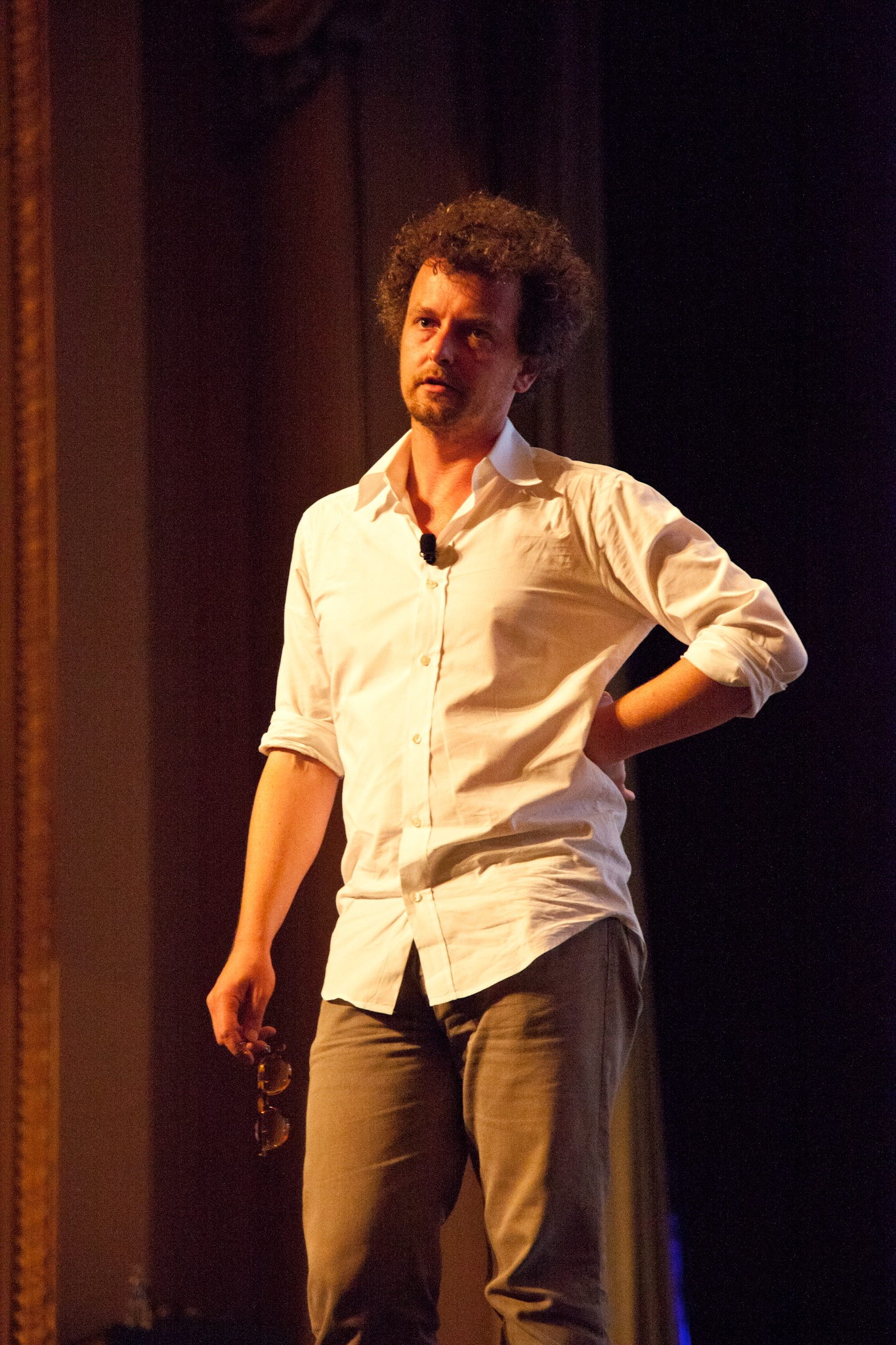 Ashley Gilbertson